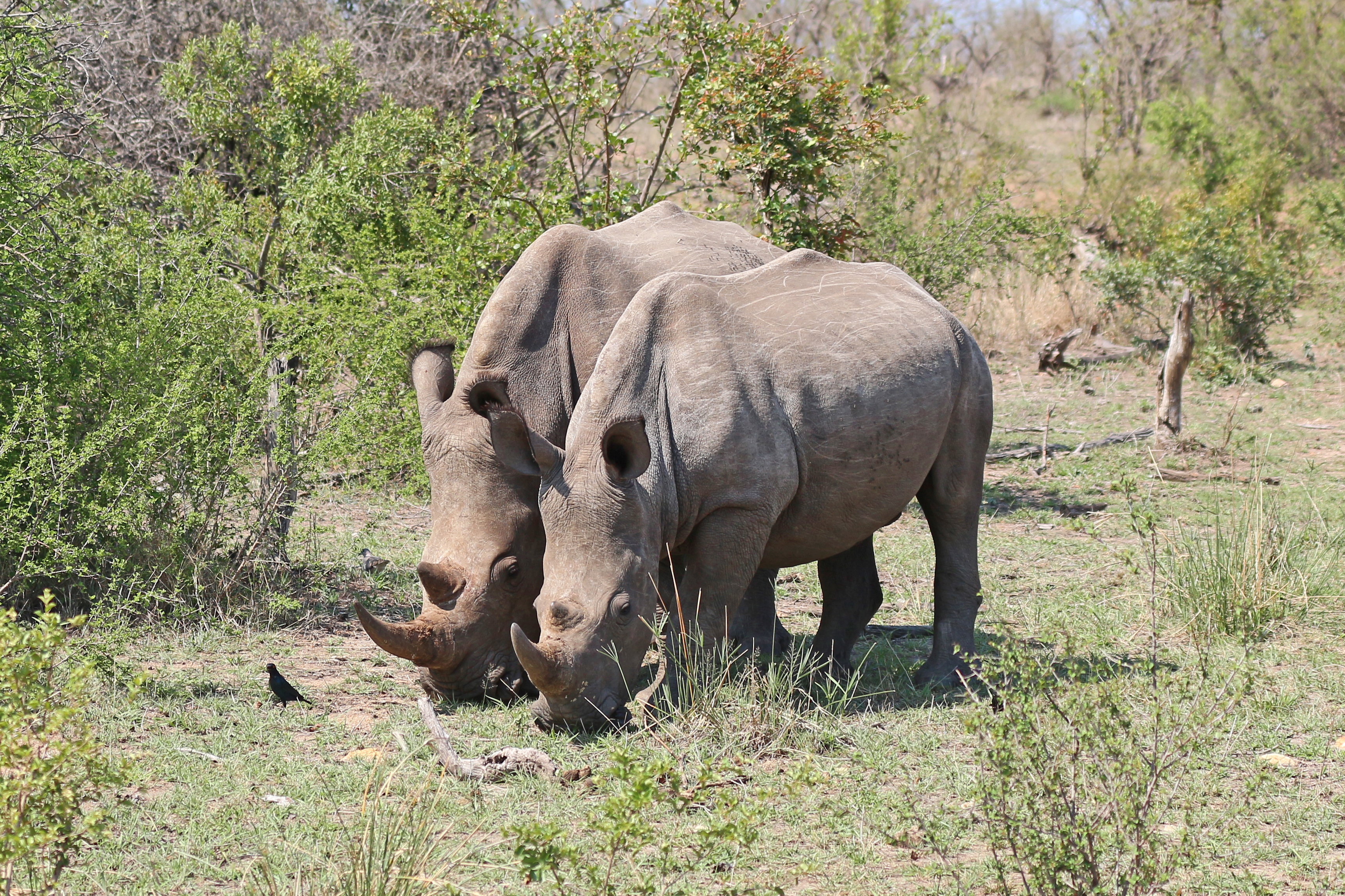 Southern white rhinoceros (Ceratotherium simum simum) in Kruger National Park, South Africa